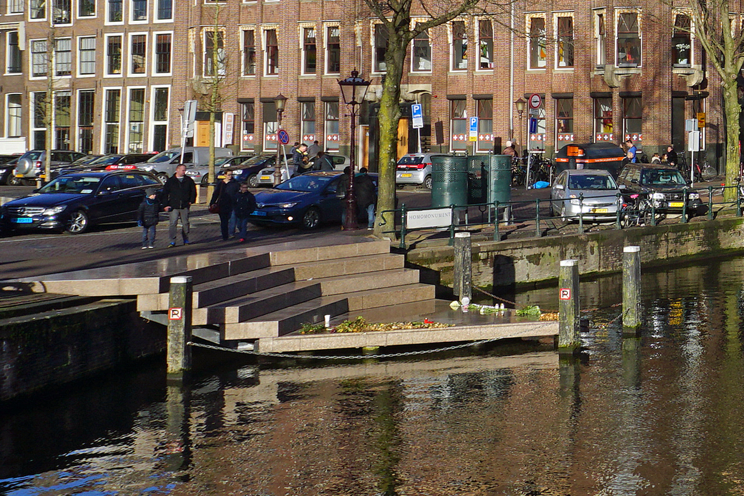 Homomonument in Amsterdam